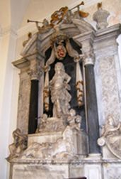 Funerary monument to Sir Josiah Child(d.1699) in St Mary the Virgin Church, Wanstead.